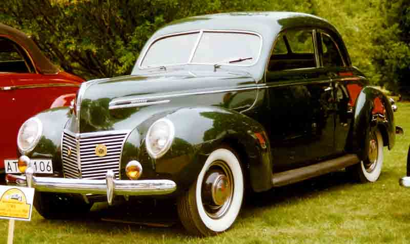 1939 Mercury Series 99A Sedan Coupé